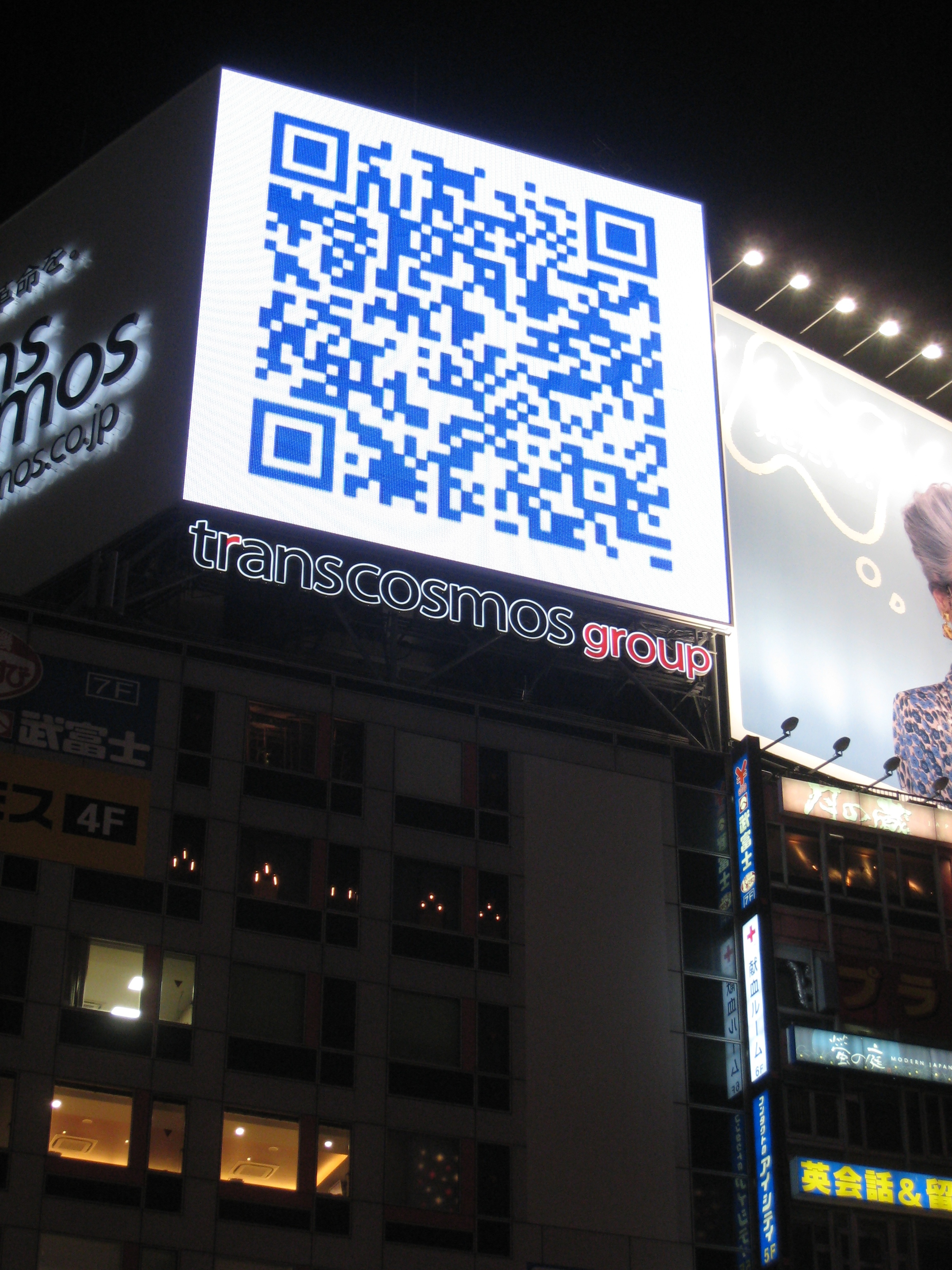 A huge billboard advertisement in Shibuya (Tokyo, Japan). A pedestrian may use a cellphone to read the QR code (barcode) with the phone's camera. The phone will open a web browser to the URL encoded in the QR code, in this case a specialized search engine (which does not seem to have a connection to "Cosmos group" seen under the ad, nor to the other ad on the right). Something surprising is that the ad consists of the QR alone, meaning that the public will open the web page out of curiosity, not knowing what kind of website they will get (see Viral marketing). The support seems to be a LCD but the image is static, no animation. The advertised QR code's URL target is